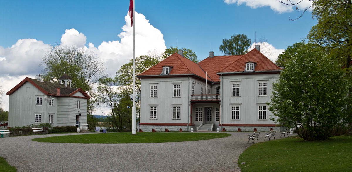 The Norwegian Constitution was written here in 1814.